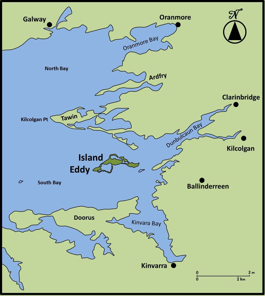 Two-colour map of eastern end of Galway Bay Ireland